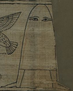 Greenfield papyrus, sheet 12, vignette of god Medjed